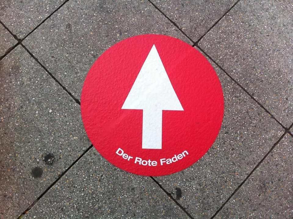 Roter Faden Hannover